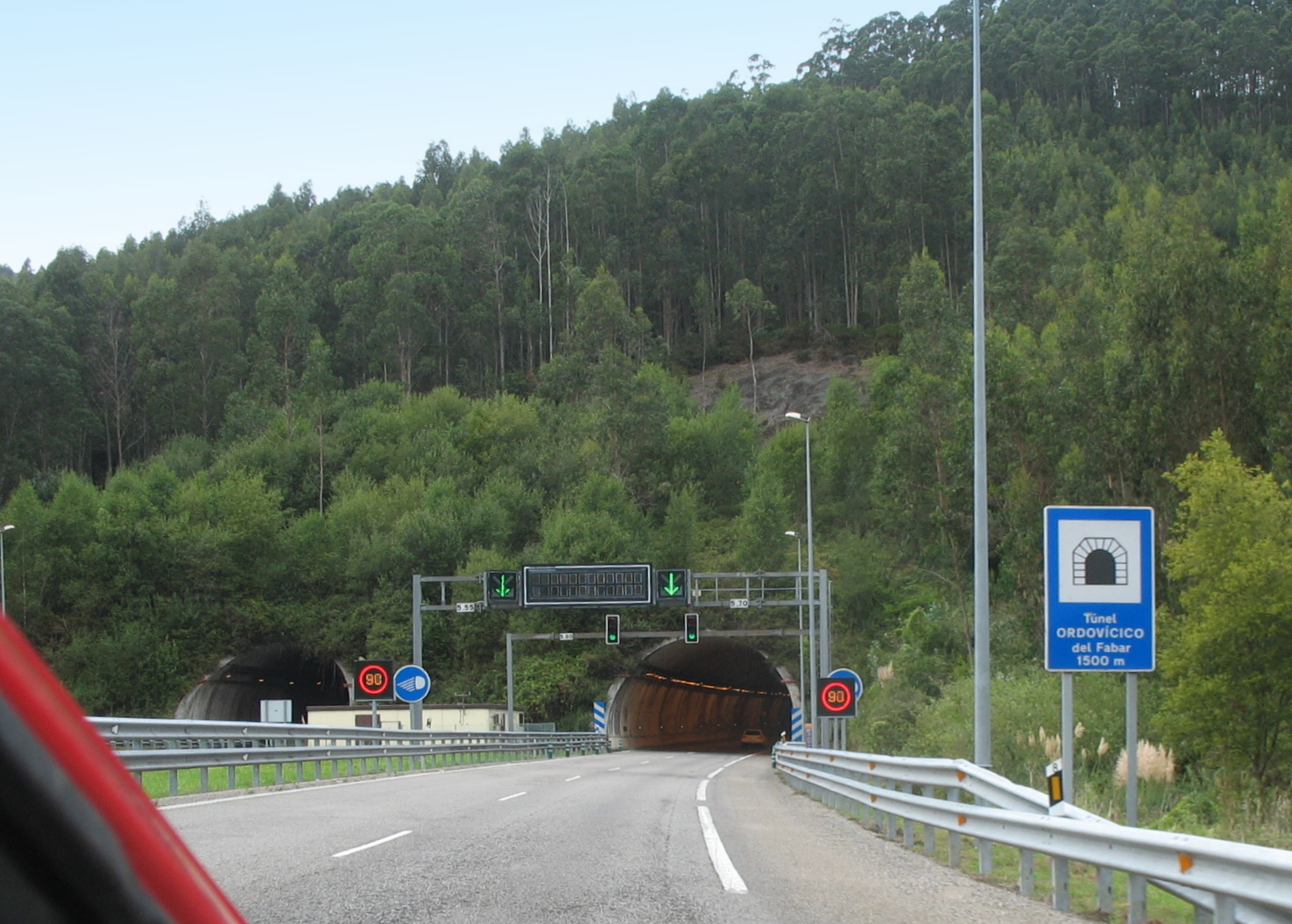 Ordovician Tunnel of El Fabar (A-8), Ribadesella, Asturias, Spain